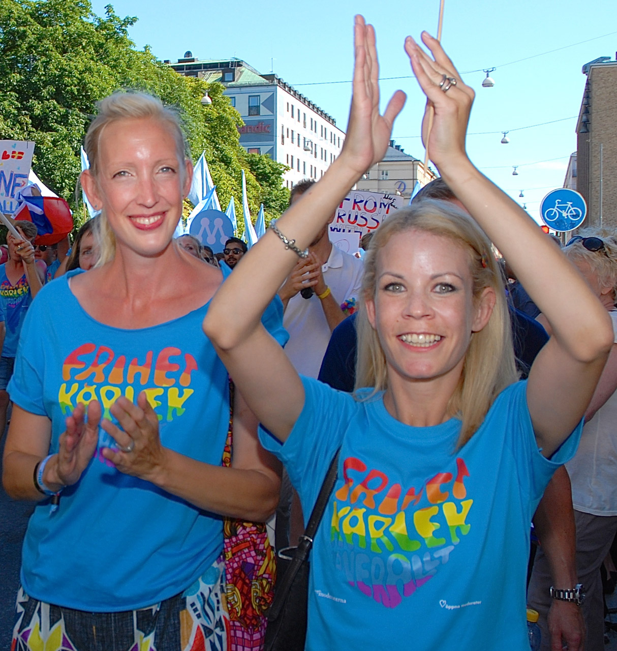 The concluding Pride Parade during Stockholm Pride 2013.